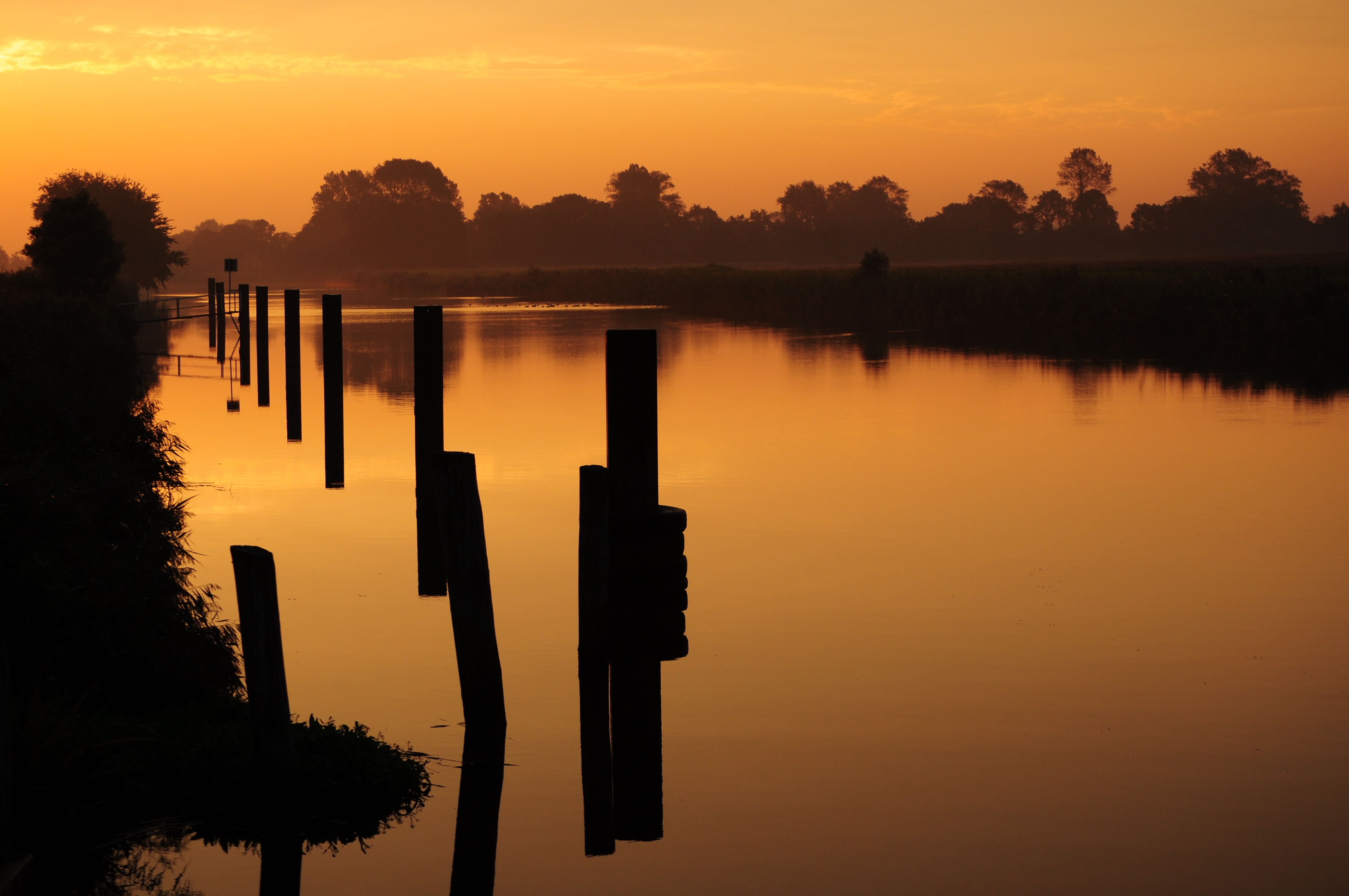 Hadelner Kanal near Otterndorf. September 2015.